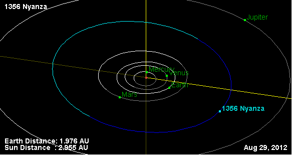 1356 Nyanza orbit, and his position on 29 Aug 2009 (NASA Orbit Viewer applet)